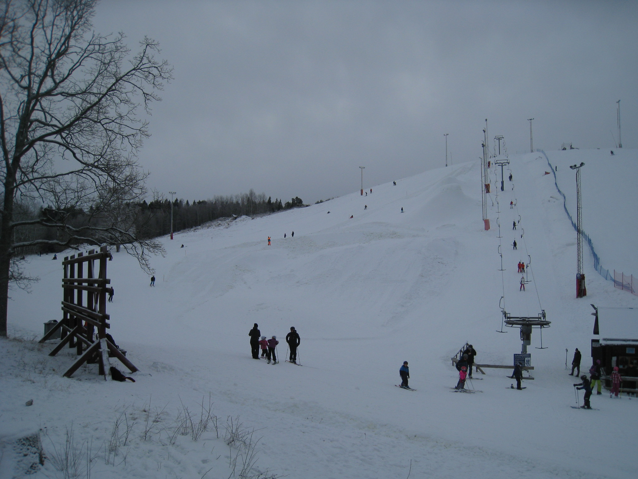 Bruket's ski slope, Järfälla Municipality, western Stockholm.